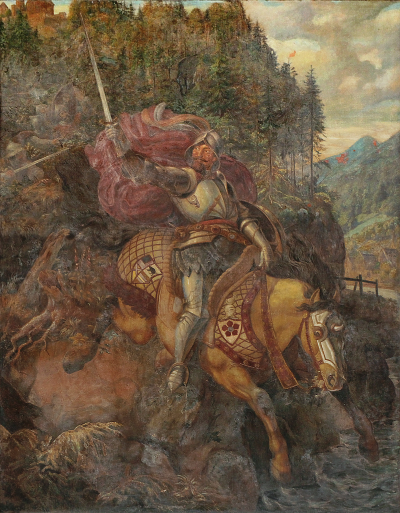 Fresco from the Trinkhalle Baden-Baden.